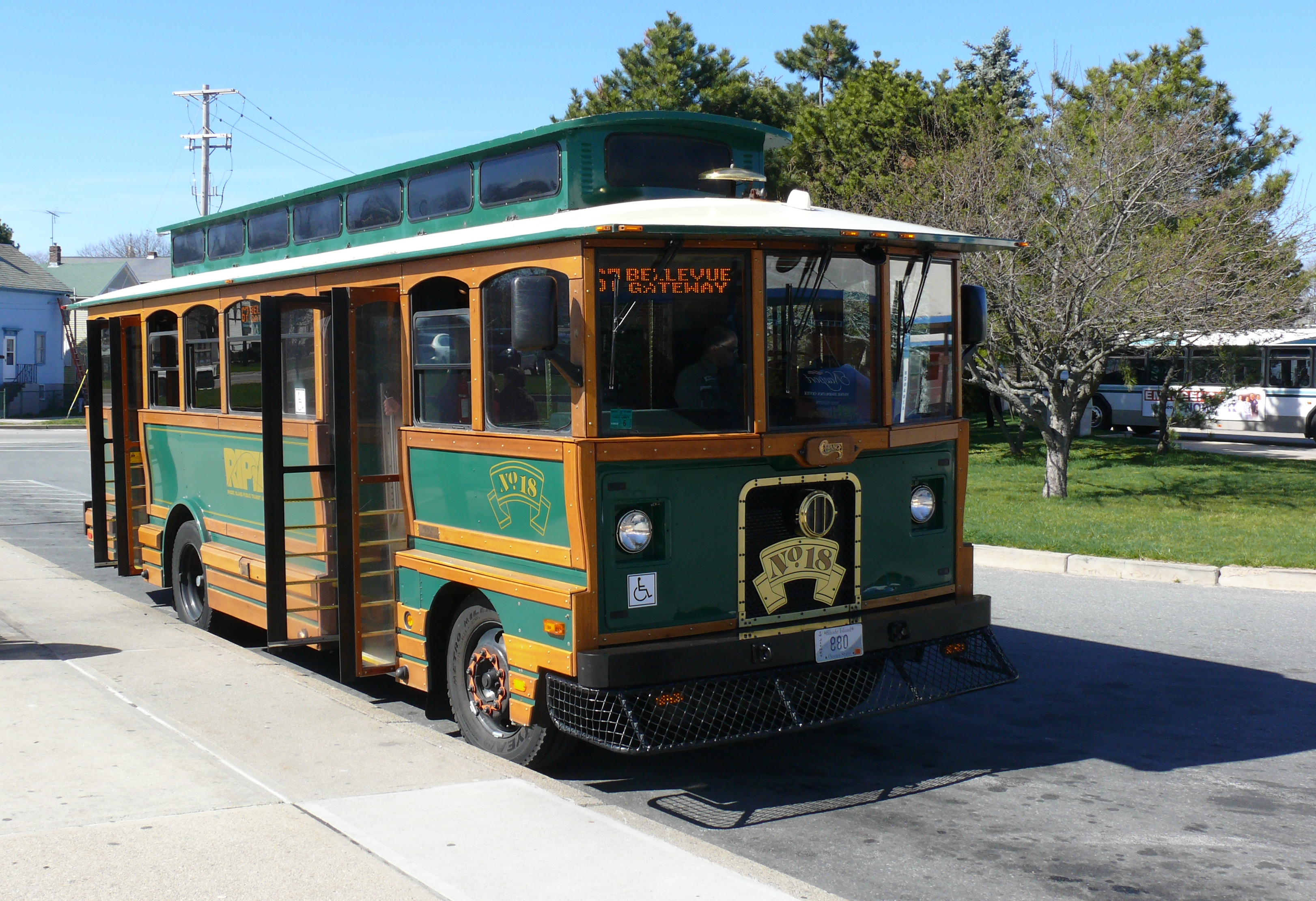 Newport Bus, RIPTA Optima Heritage Streetcar #18.